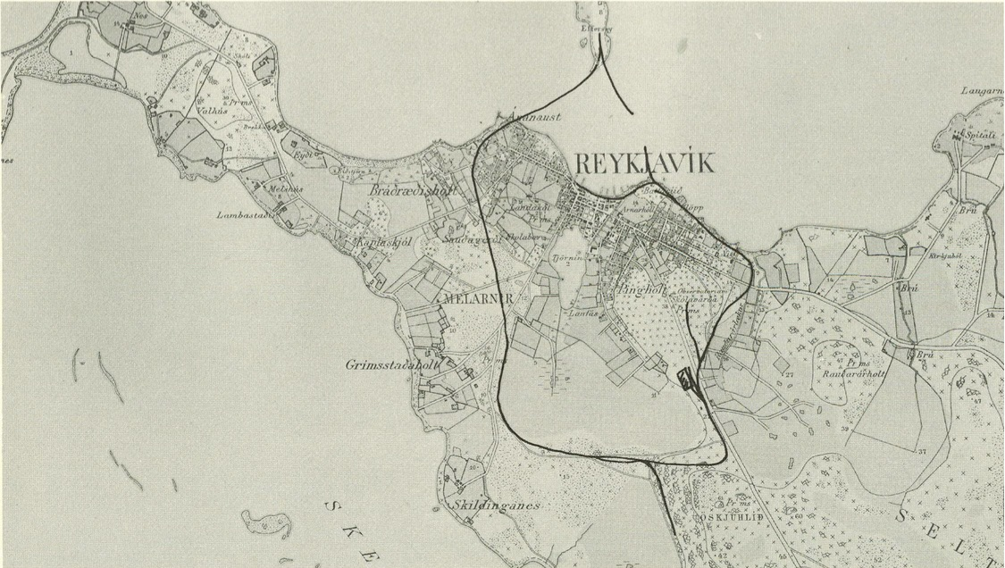 Map of Reykjavík Harbour Railway from 1902 by N. P. Kirk